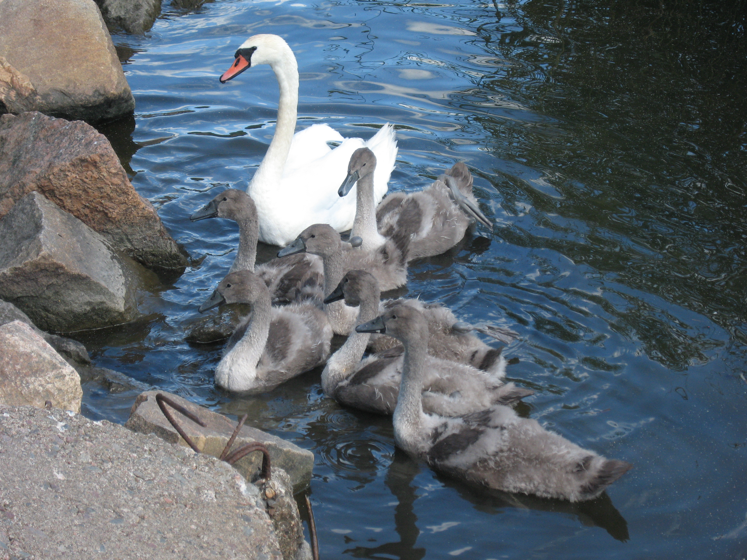 Mute Swan mother with six cygnets at Roihuvuori